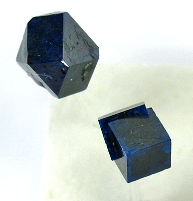 Boleite Locality: Amelia Mine, Santa Rosalía (El Boleo), Boleo District, Municipio de Mulegé, Baja California Sur, Mexico (Locality at ) Size: thumbnail, Mixed Boleite Thumbnails (mixed sizes). Boleite is a very rare silver species that only here occurs in large crystals in this quality. After its first discovery in the late 1800s, it was a classic for Mexico, but a little off the beaten track as far as geography goes, compared to the rest of the Mexican minerals we see on the market, and in this collection. This is a complete suite of different crystal habits for the species with the largest crystal about 1.2 cm, all found by field-collectors Bill Larson and Ed Swoboda in 1973. Romero got it directly from Larson, in the 1970s. This specimen from the Dr Miguel Romero collection was on loan exhibition to the University of Arizona Museum for over a decade, until my purchase of this collection in 2008. It was on display in special cases at the museum, and has since been featured in the book "The Miguel Romero Collection of Mexico Minerals" which we sponsored as a special supplement book (published by the Mineralogical Record in December of 2008).